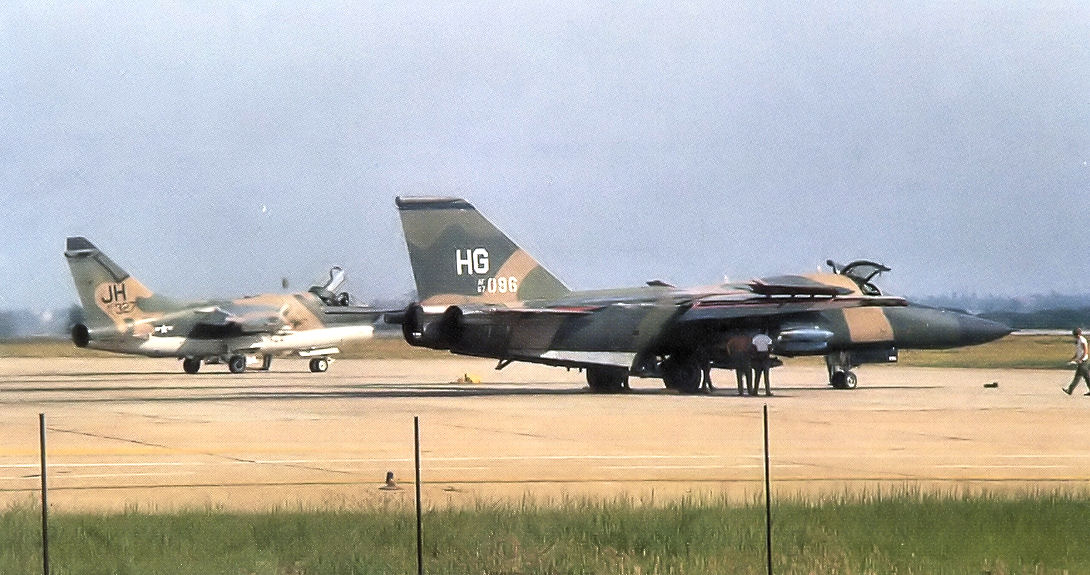 Korat RTAFB A-7D F-111 on Alert Ramp during SS Mayaguez Operation May 1975 429th TFS General Dynamics F-111A 67-096 Retired to AMARC as FV0030 Aug 24, 1990. 3d TFS Ling-Temco-Vought A-7D-10-CV Corsair II 71-0327 Retired to AMARC as AE0097 Dec 16, 1991. Transferred to Fritz Enterprises in Michigan for scrapping Apr 22, 1998